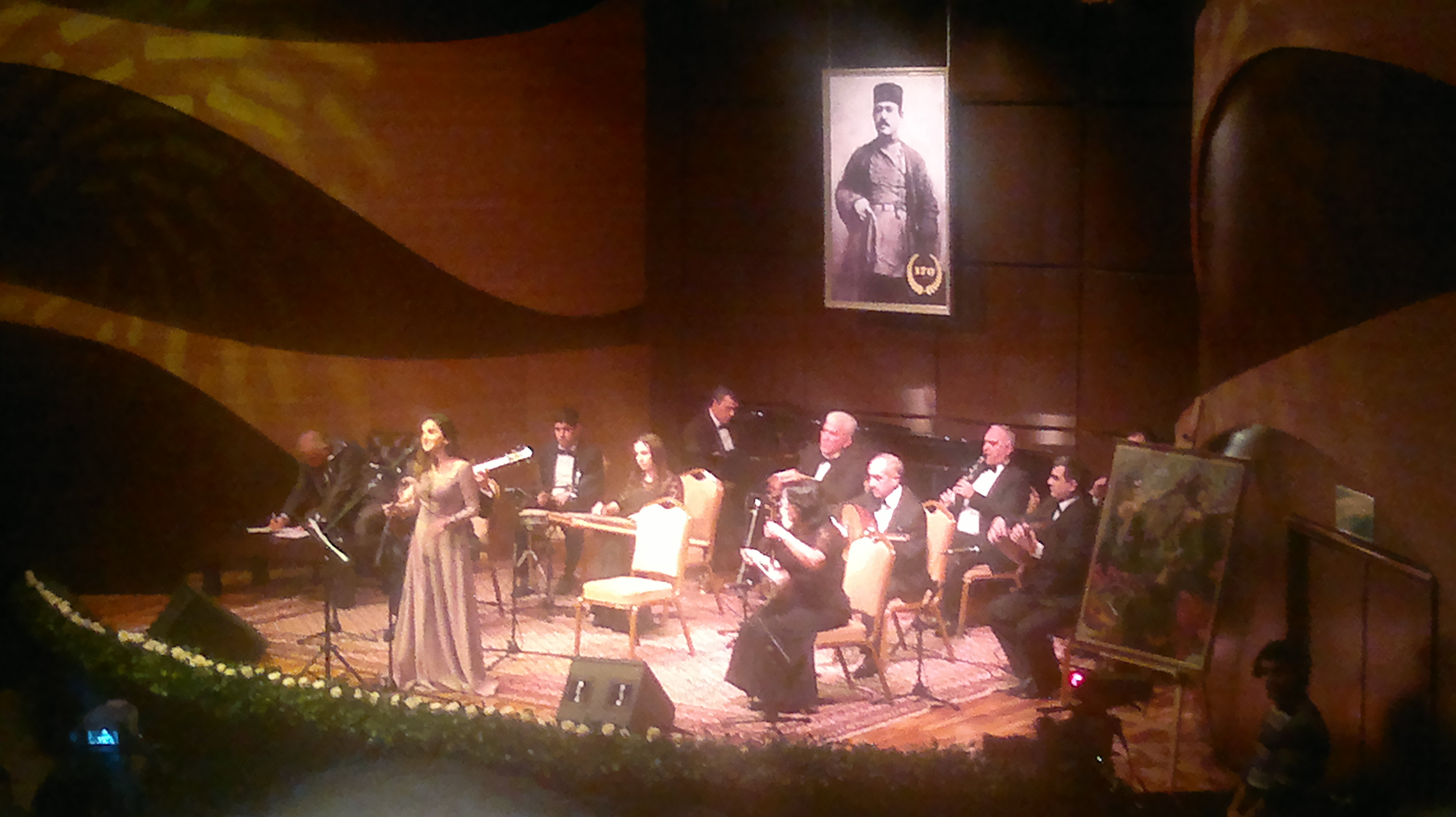 Concert dedicated to 170th anniversary of Sadigjan. "Sen de bir bashga mensen" Azerbaijani folk song (composed by Navvab Sadig).